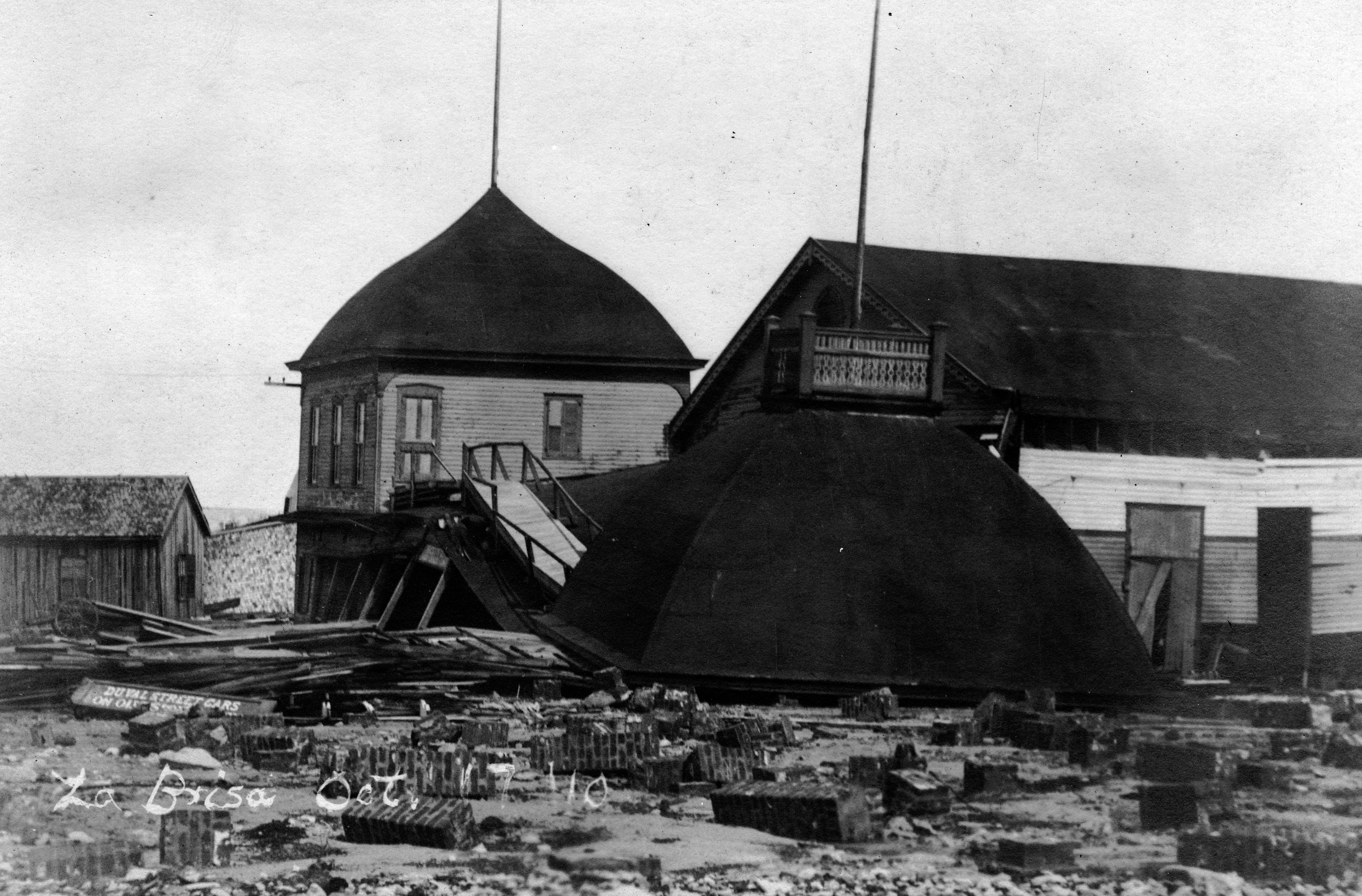 The La Brisa after the 1910 Hurricane. Stone and Webster Electric Company photo collection. Effects of the 1910 Cuba hurricane in Key West, Florida, October 1910.